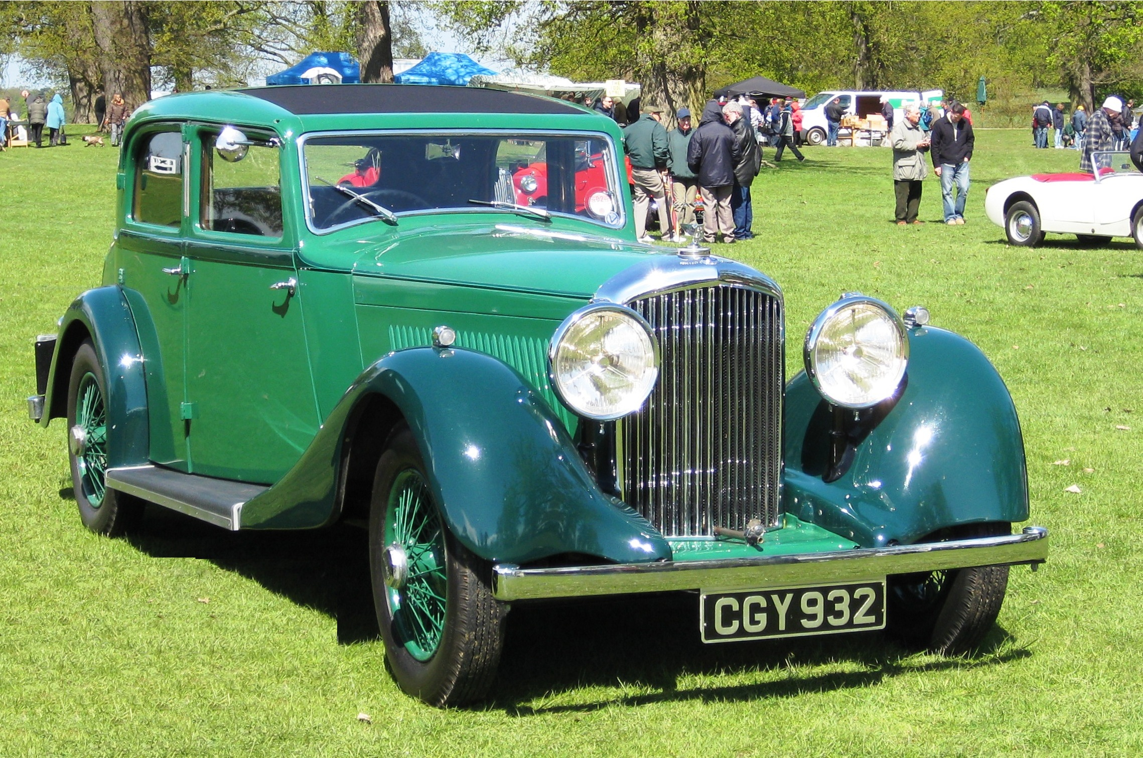 Bentley 3½ sedan 1935. The car has now been identified by wiki contributor Glachlan as a Park Ward bodied 3 1/2 litre, chassis number B120FB, delivered new to a John C Bosley in December 1935